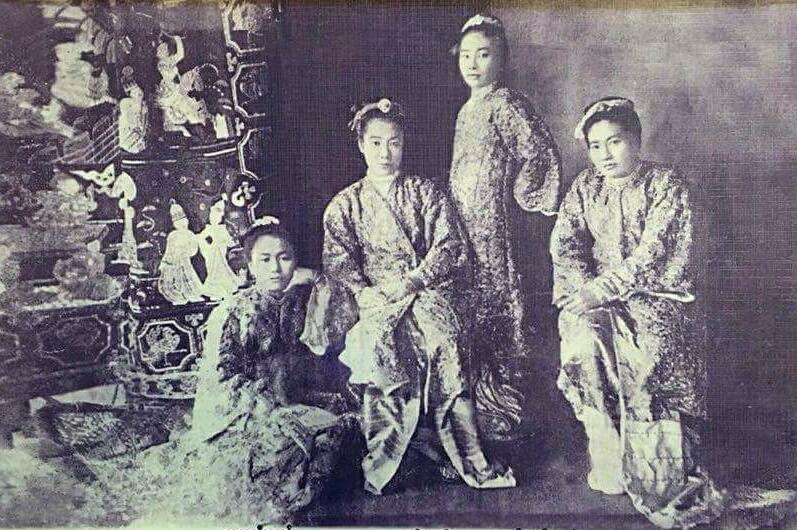 Four Princess, daughters of King Thibaw (Myat Phaya Galay (fourth), Myat Phaya Gyi(first), Myat Phaya Lat(second), Myat Phaya(third))